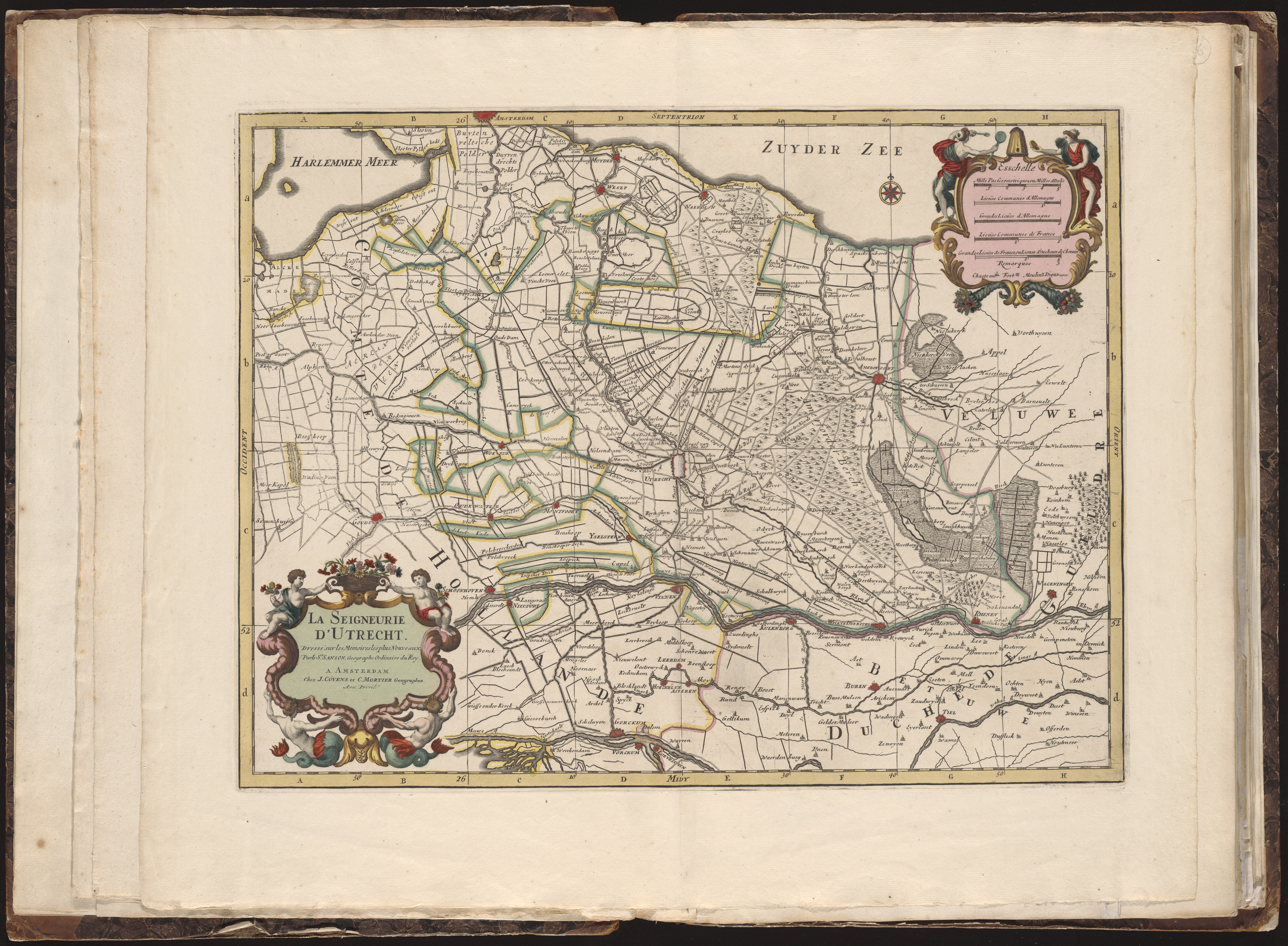 Scale [c. 1:165.000]. Map belongs to this alfabetical table by Guillaume Sanson.